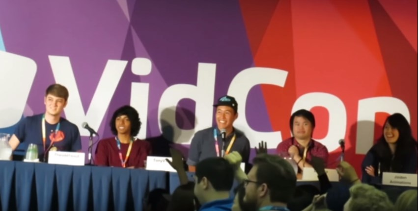 Vidcon 2017 Animators Panel 2017 with: TheOdd1sOut, TonyVToons, Chris from itsAlexClark, Domics, Jaiden Animations